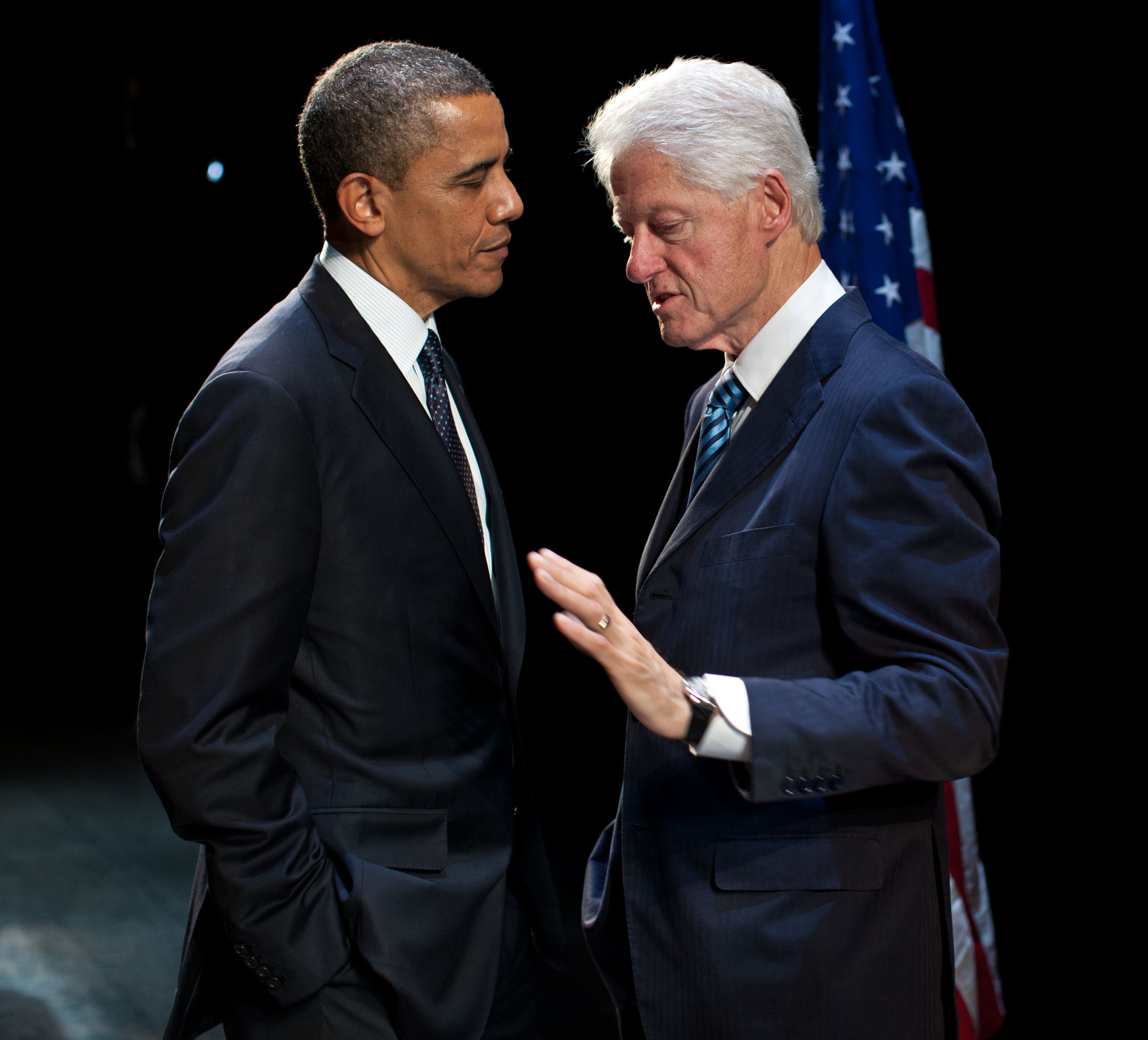 President Barack Obama talks with former President Bill Clinton backstage at the New Amsterdam Theater in New York, N.Y., June 4, 2012. (Official White House Photo by Pete Souza)